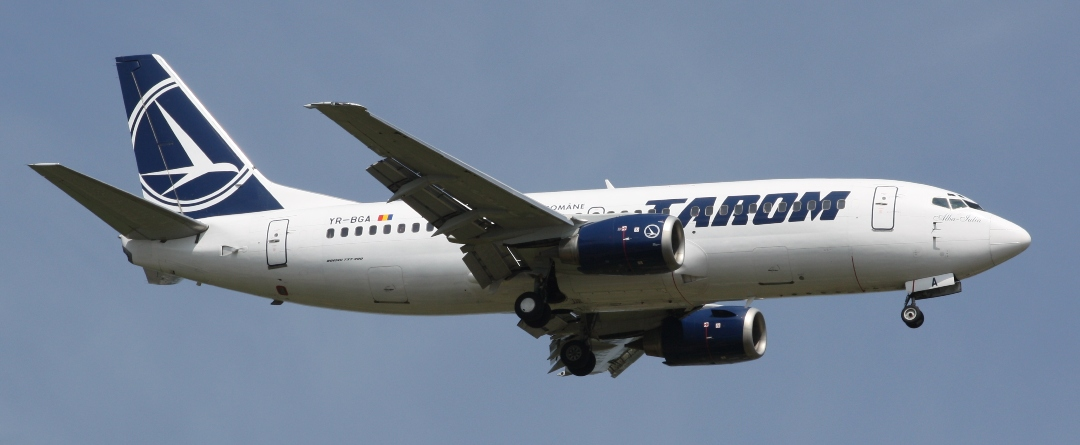 Tarom B737